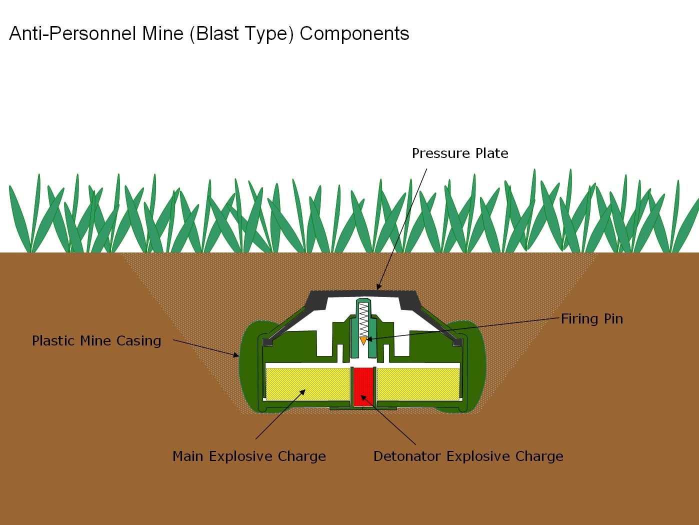 The components typically found in an Anti-Personnel Blast Mine.